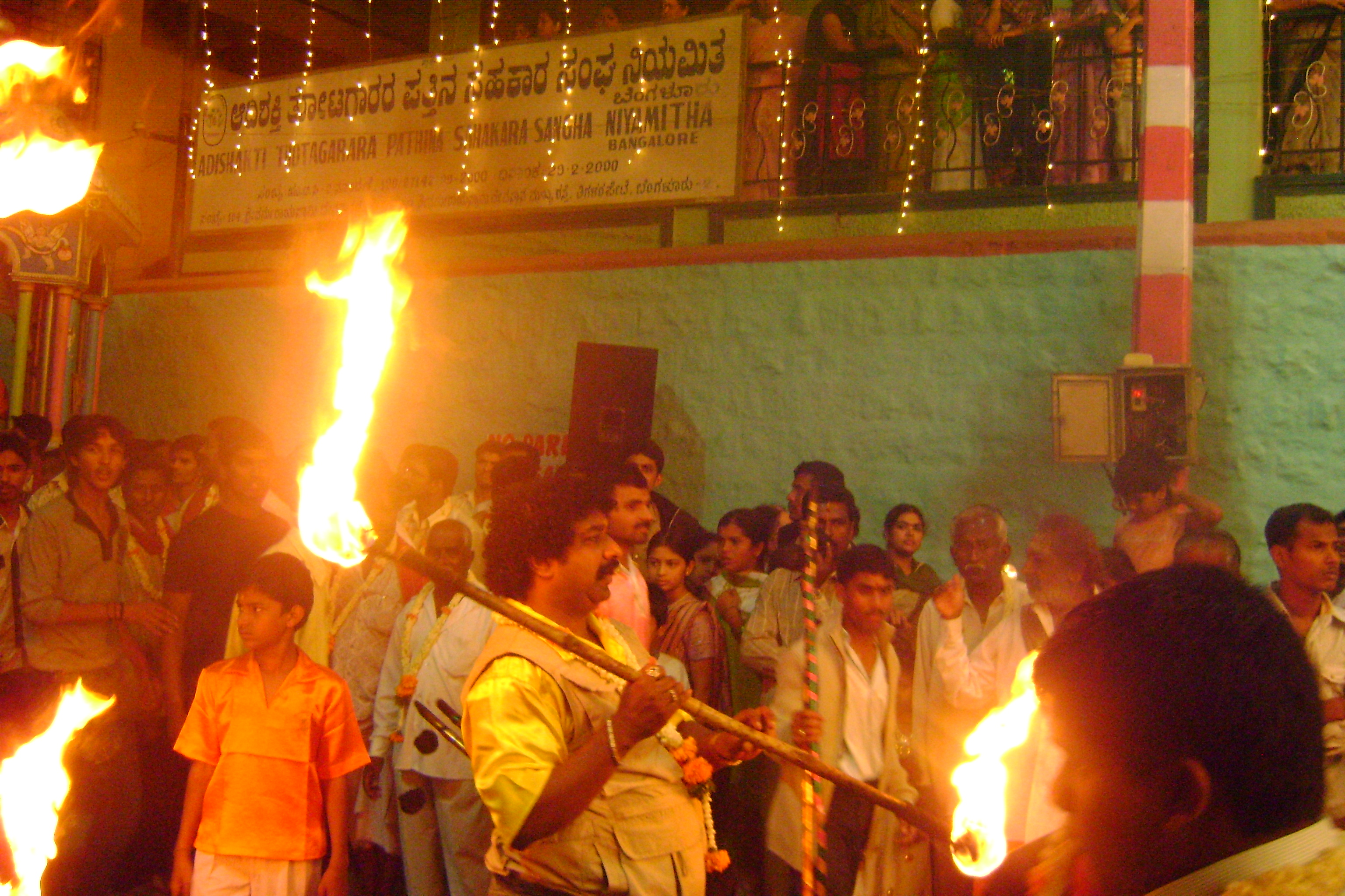 Martial arts being displayed during yelkunga or aarthi depotsava which is day before hasi karaga. Martial arts is carried out starting from temple then marches towards Kumbarapete along with Nagatherapete main road.